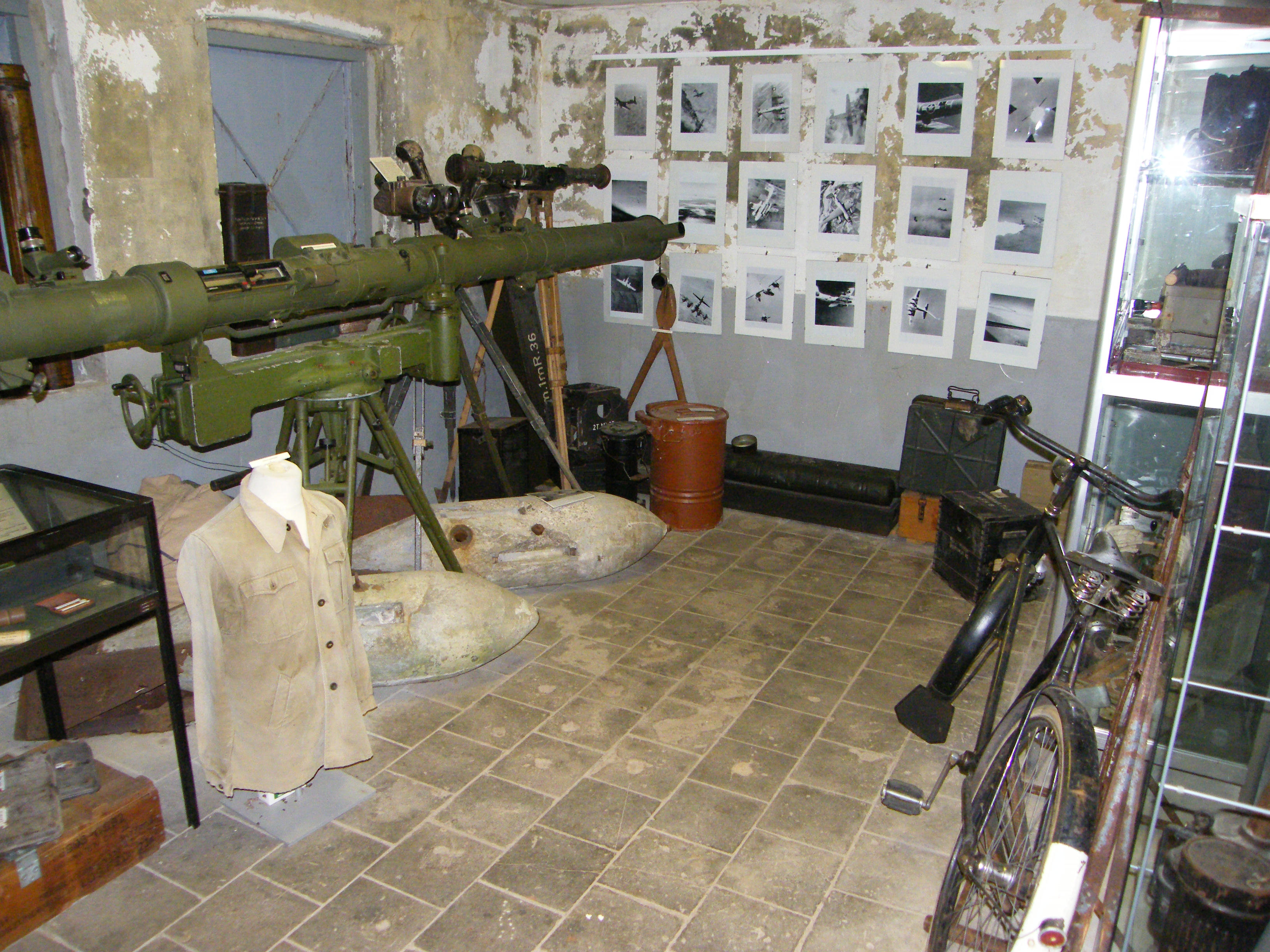 Bunker Museum IJmuiden, The Netherlands - Museum bunker 2, room 1 - Several optical instruments like rangefinders. The big one is a German 4 meter E-Meßer.